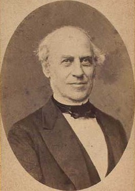 Johannes Lasenius Kramp (1808-1876), Danish carpenter and school founder